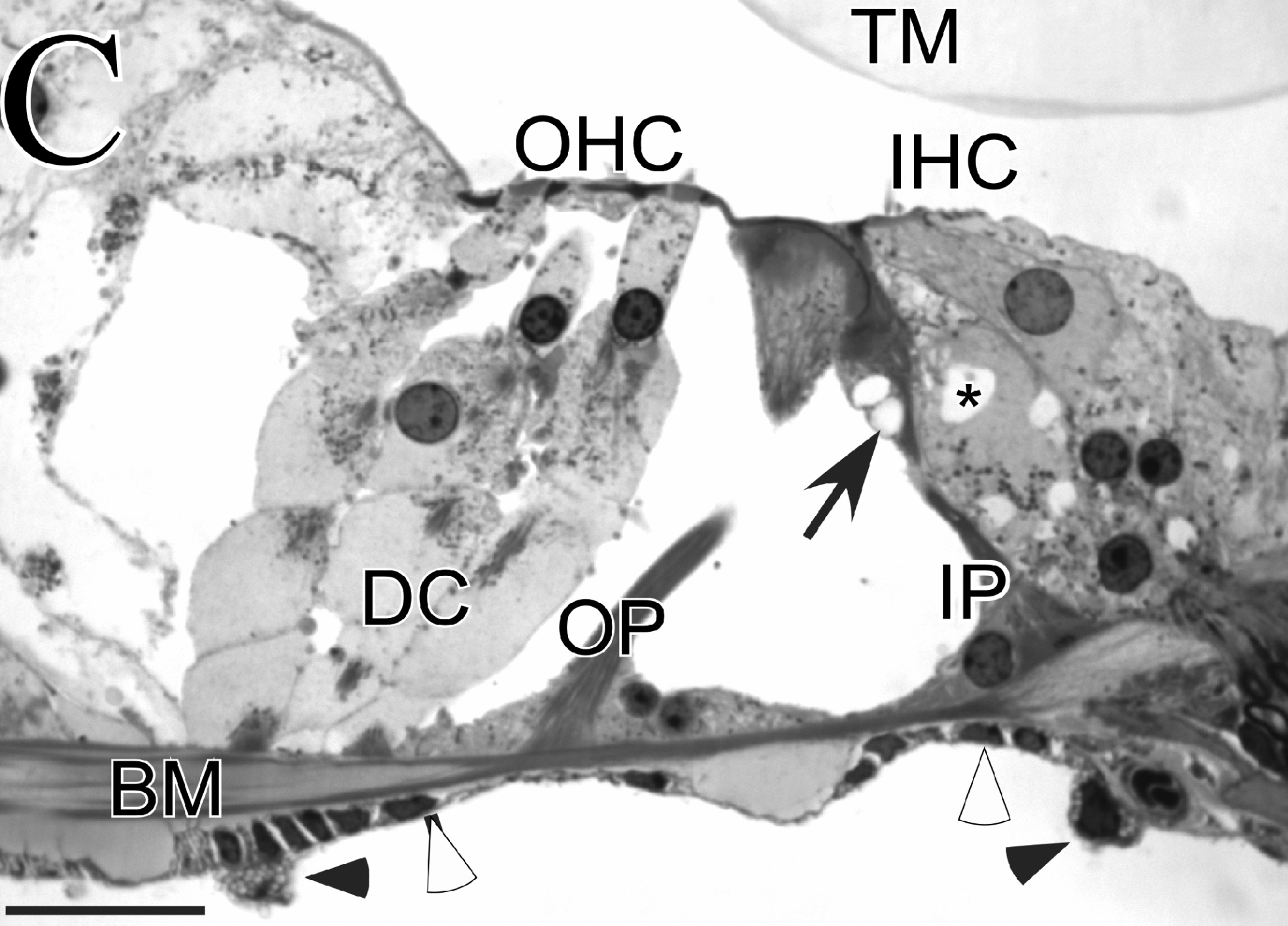 C. Expanded view of medial organ of Corti in A. The only cells showing storage are inner pillar cells (IP) (black arrow). Mesothelial cells lining the basilar membrane (BM) show the aberrant storage (white arrowheads), as do adherent inflammatory cells (black arrowheads). Vacuoles within inner hair cells (asterisk, IHC) are probably a processing artifact.